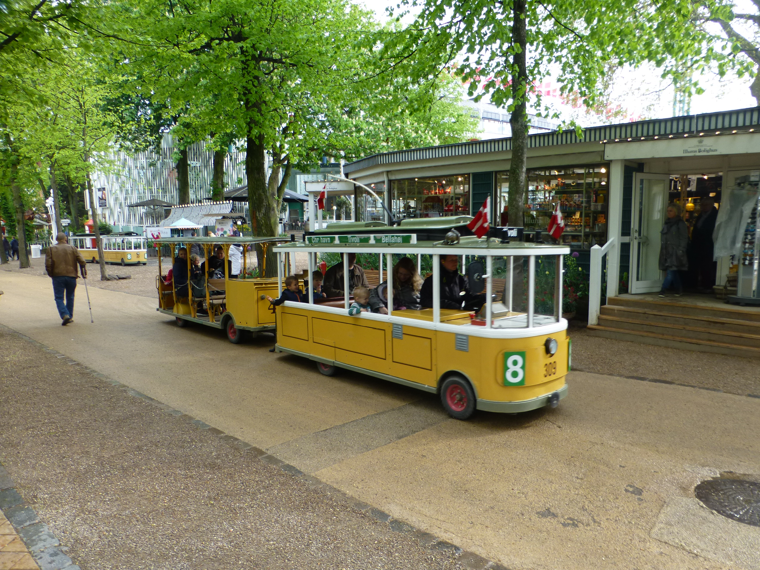 The "trams" on linie 8 in Tivoli Gardens, Copenhagen.